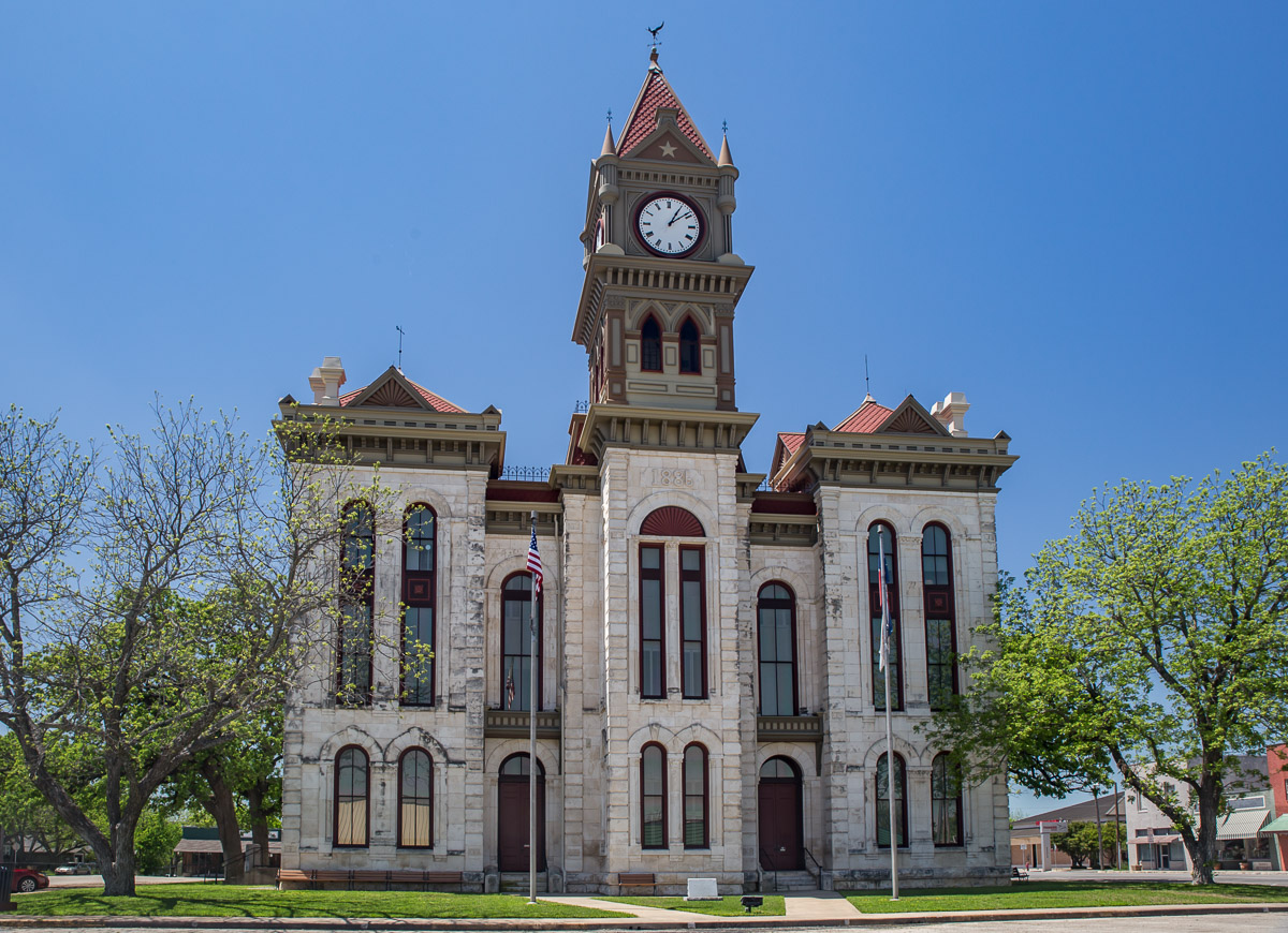 Bosque County Courthouse was built in 1886